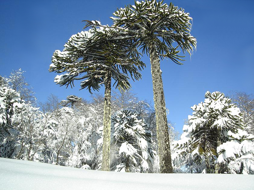 Araucaria araucana in Conguillio National Park, Chile